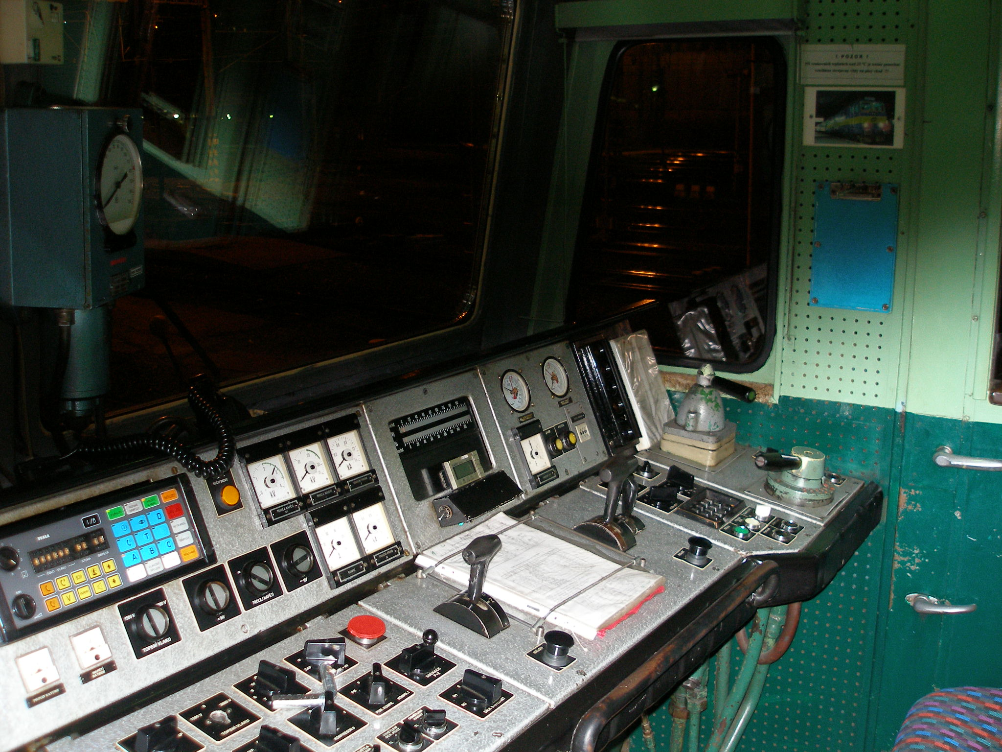 Locomotive class 363 (363 061-3), DKV Plzeň.